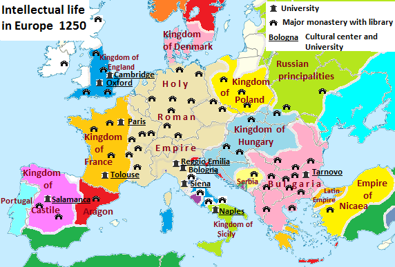 Cultural map of Europe in 1250, based on World Atlas, Berlin, 2011, page 78.